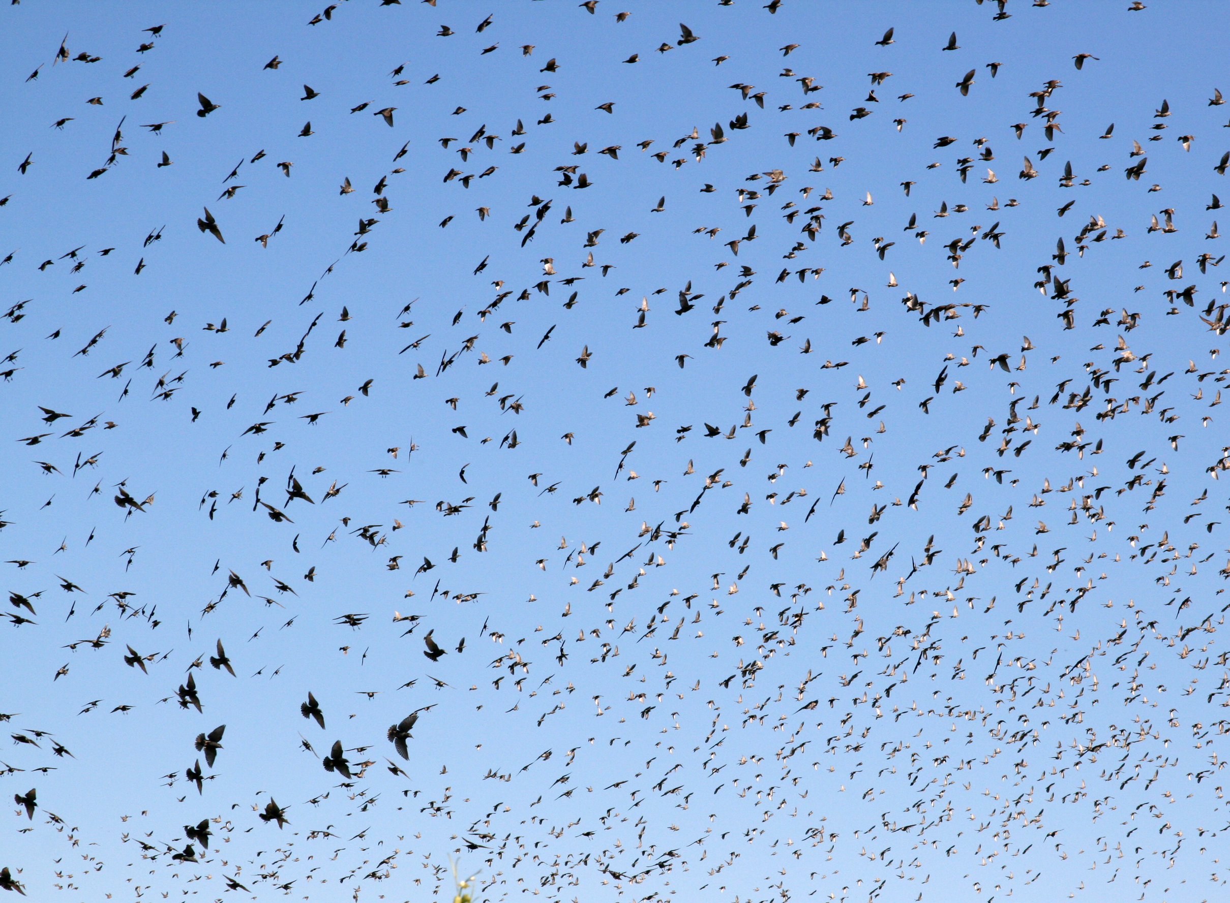 Sturnus vulgaris in Napa Valley